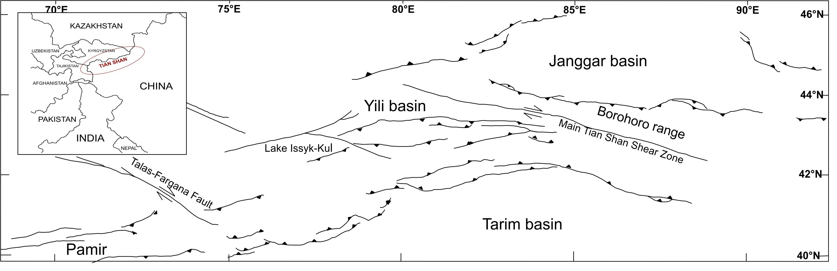 Tectonic Map